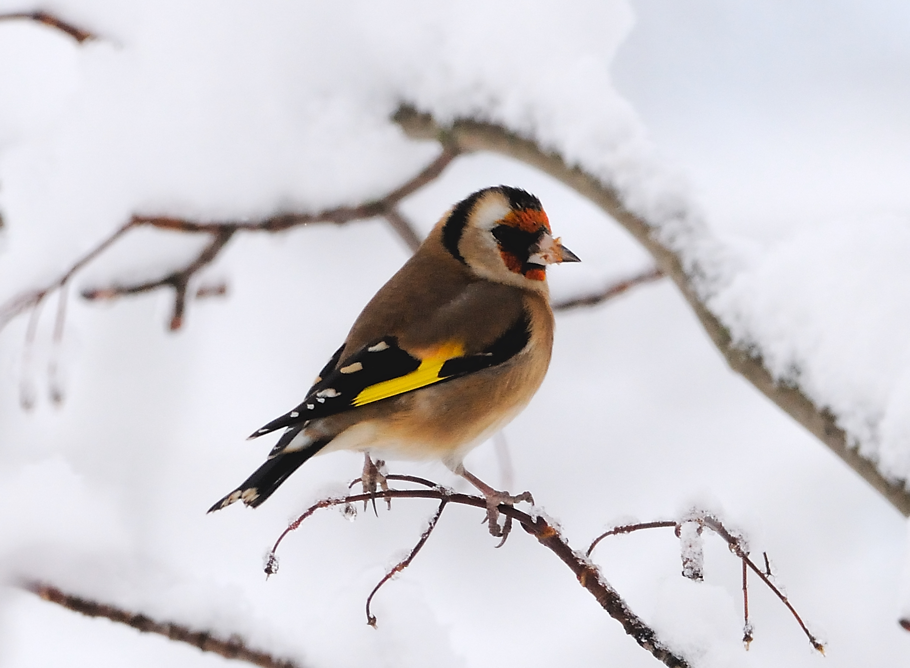 An European Goldfinch in England.